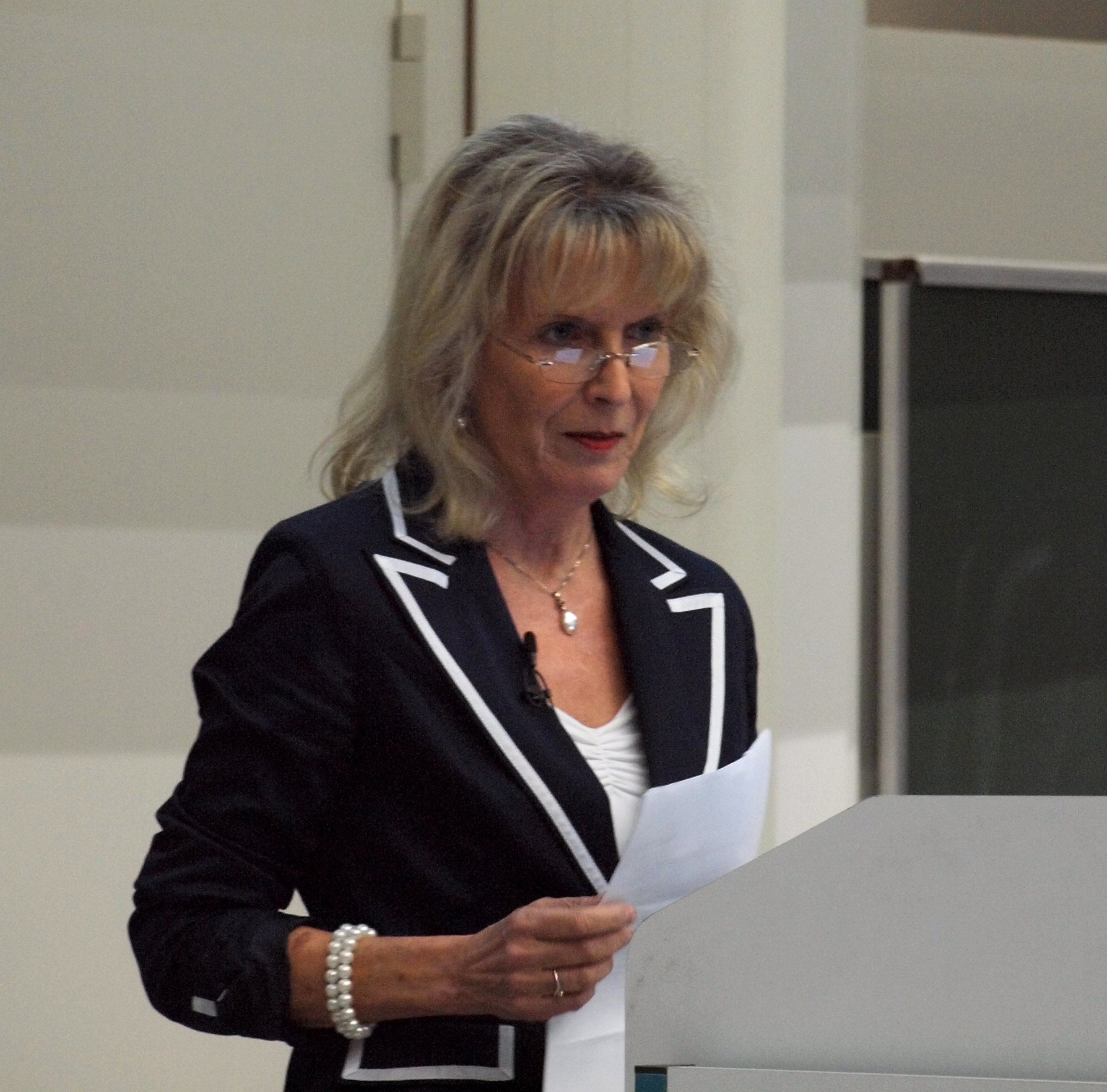 German neuropsychologist Angela D. Friederici at a lecture in Mainz, Germany.